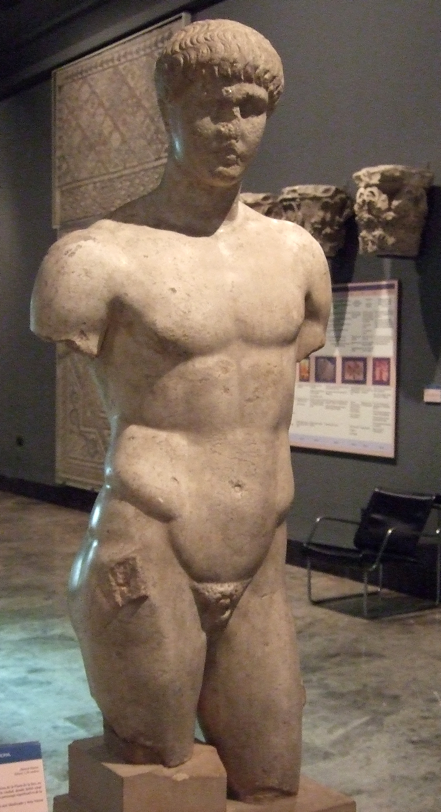 Man statue (I century BC). White marmor.